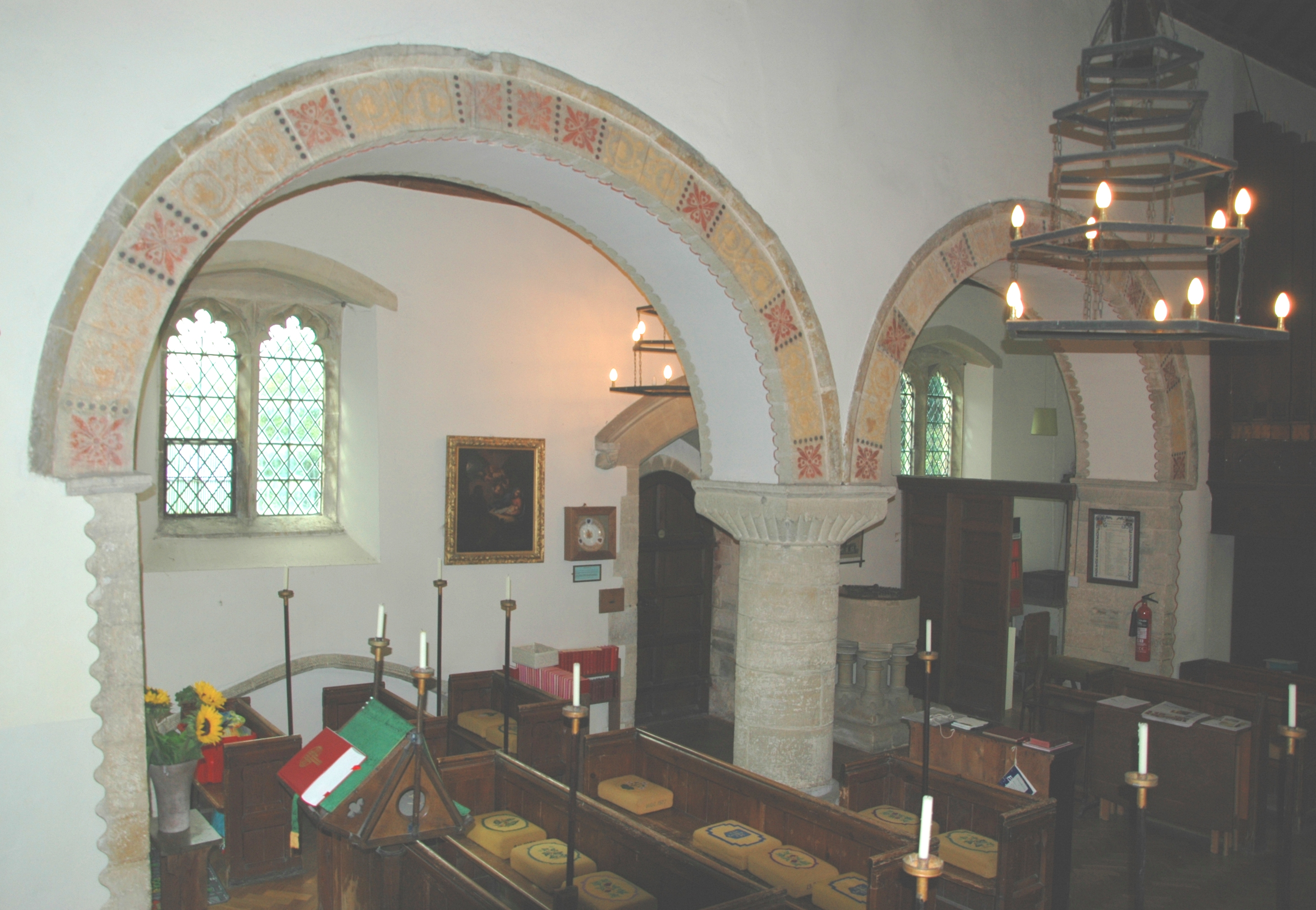 12th century Norman arcade and south aisle inside the Church of England parish church of St Edward the Confessor, Westcot Barton or Westcott Barton, Oxfordshire